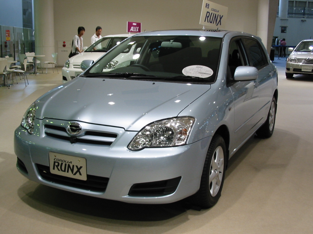 Toyota Corolla Runx (2004/4 - 2006/10)